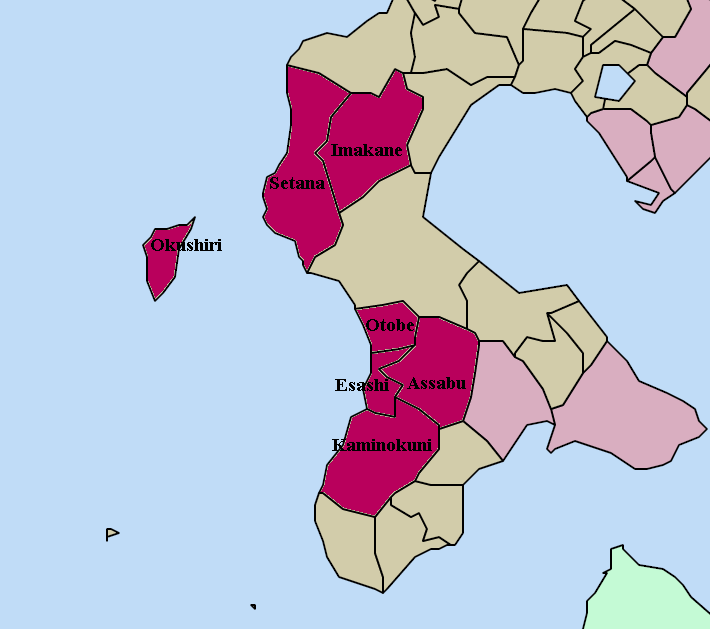 Map of Hiyama Subprefecture in Hokkaido Prefecture, Japan.